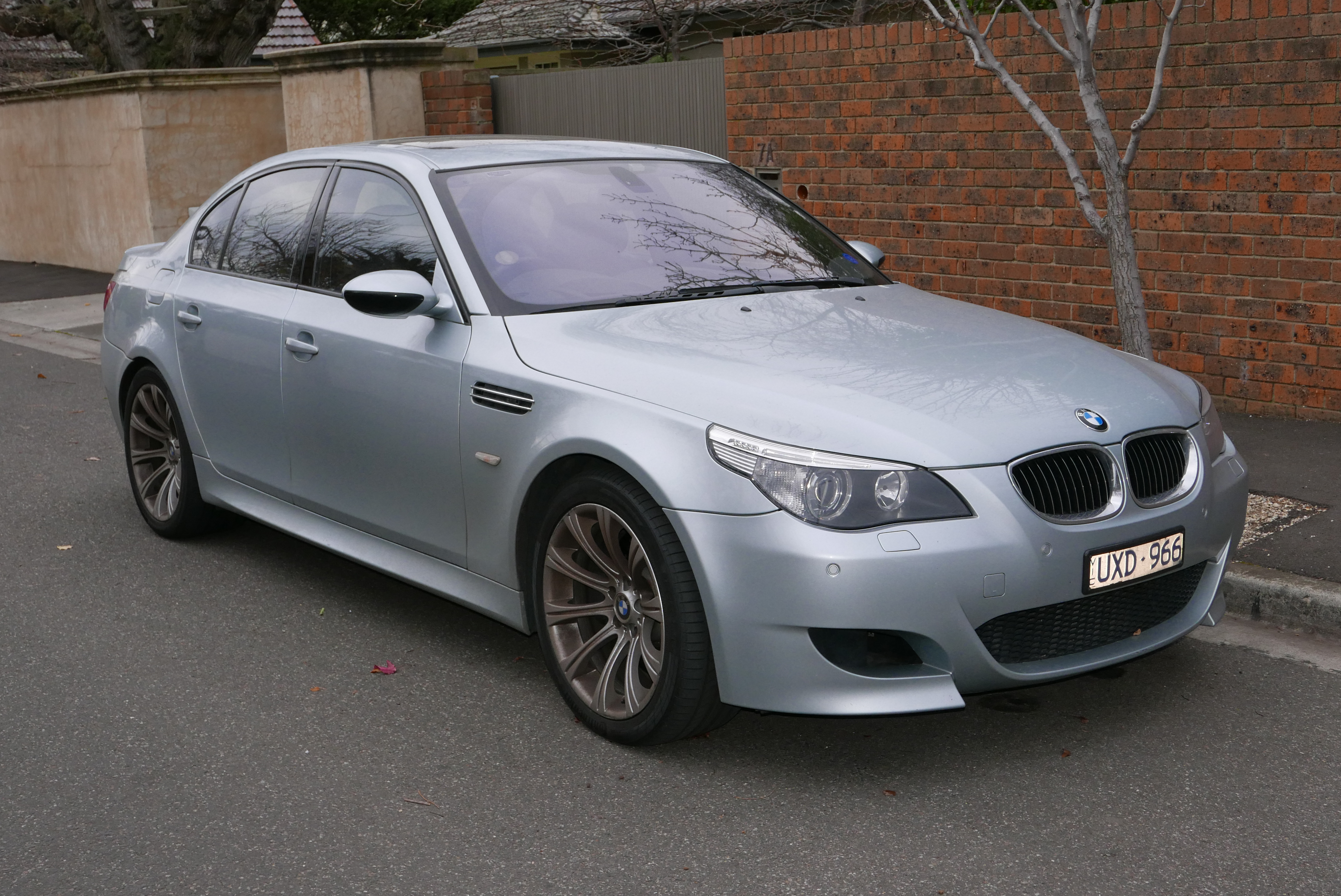 2007 BMW M5 (E60 MY07) sedan. Photographed in Brighton, Victoria, Australia. Vehicle registration enquiry resultsJurisdictionVictoriaRegistrationUXD966Chassis codeWBSNB920X0CU18249Engine code61283829Compliance date2007-07Year of manufacture2007